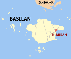 Map of the Basilan showing the location of Tuburan